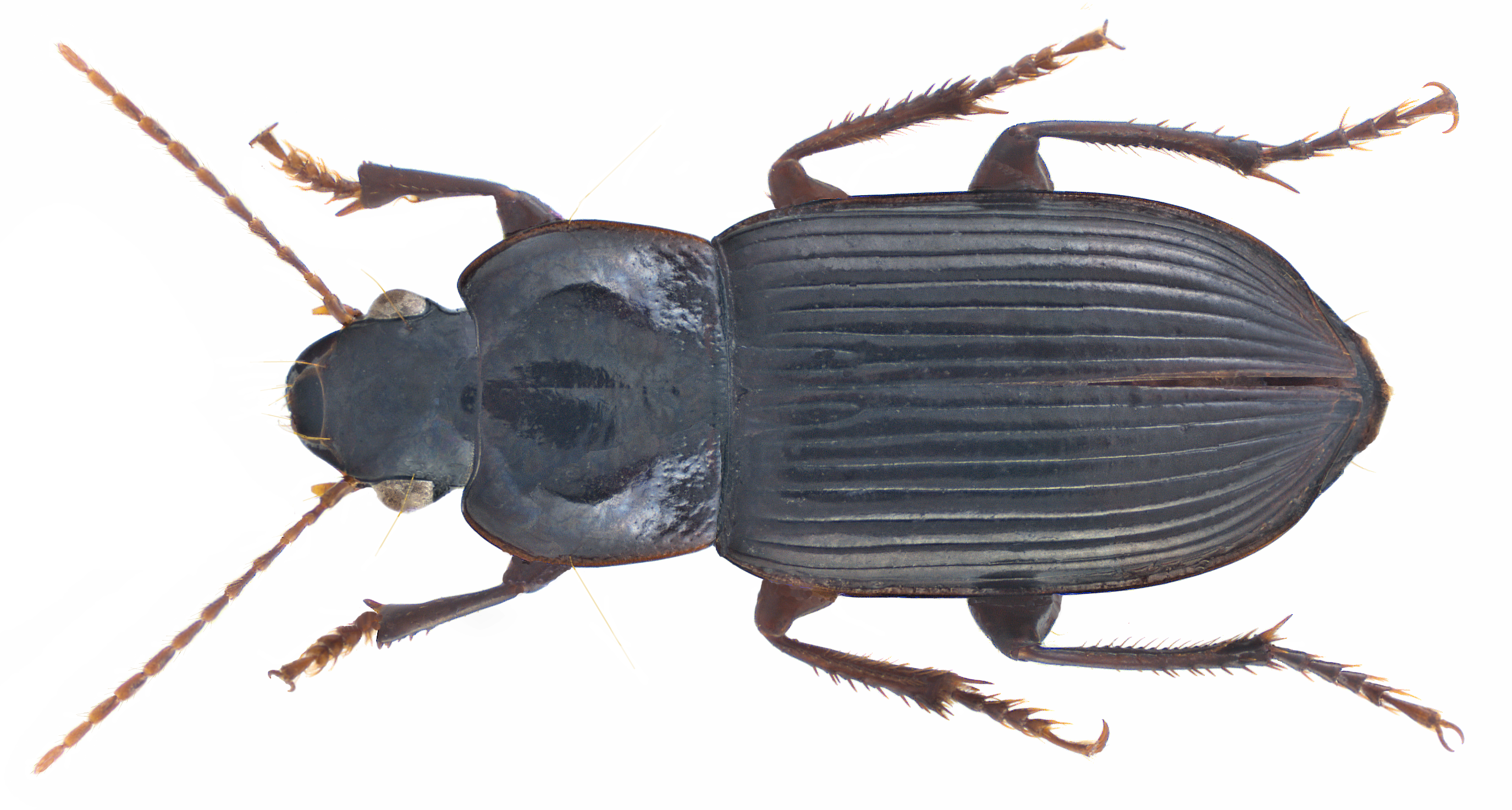 Family: Carabidae Size: 9,7 mm Location: Spain, Canary Islands, Tenerife, Teno, Erjos, 1030 m, Casa Forestal leg. J.Schoenfeld, 8.X.2001; det. Lompe, 2012 Photo: U.Schmidt, 2015